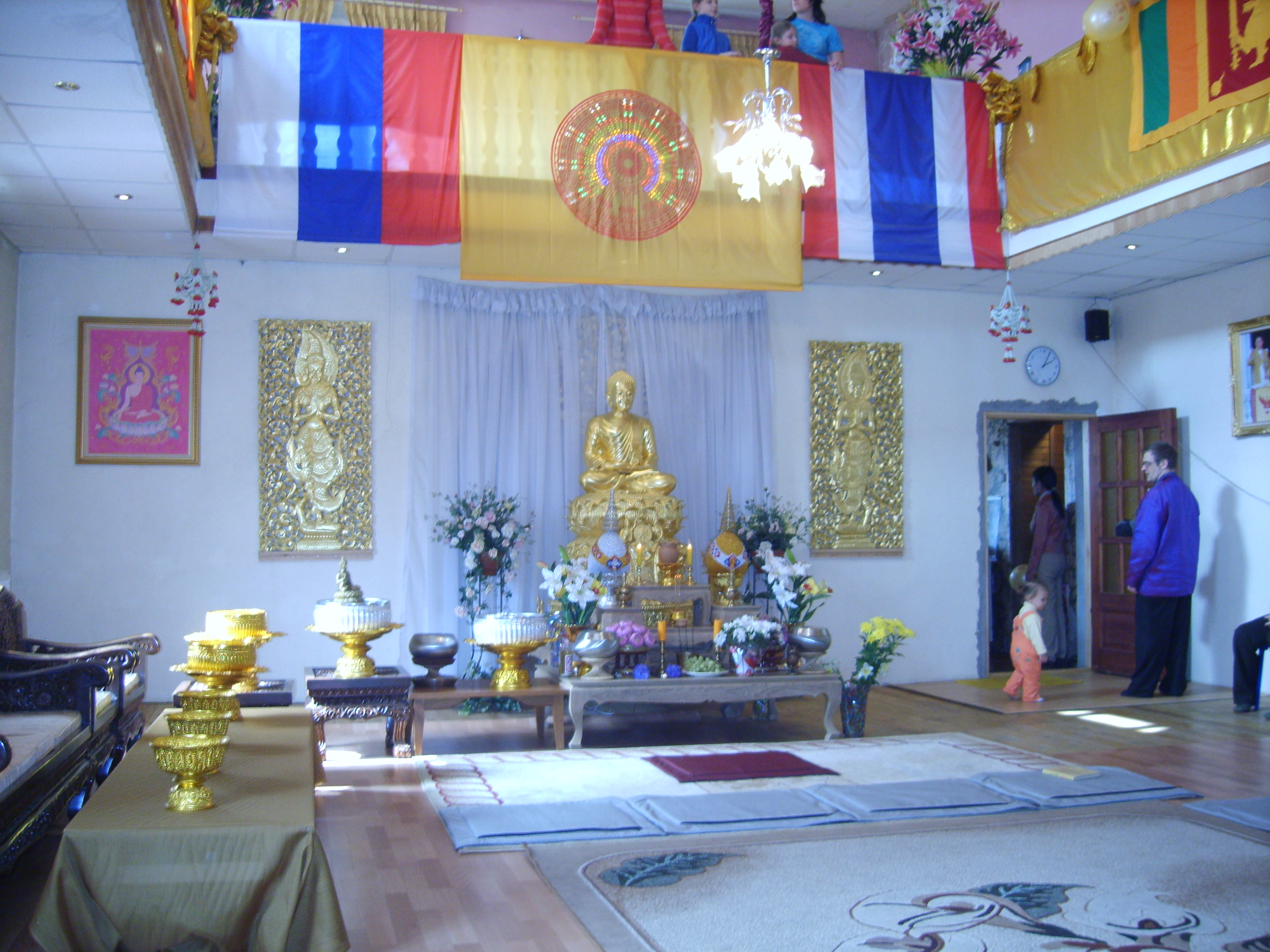 Buddavihara — Buddist temple in St.Petersburg